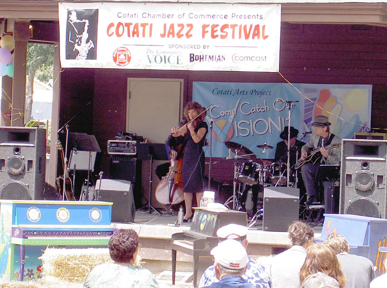 The Susan Comstock Quintet performing on the main stage — at the 2010 Cotati Jazz festival in Cotati, California.